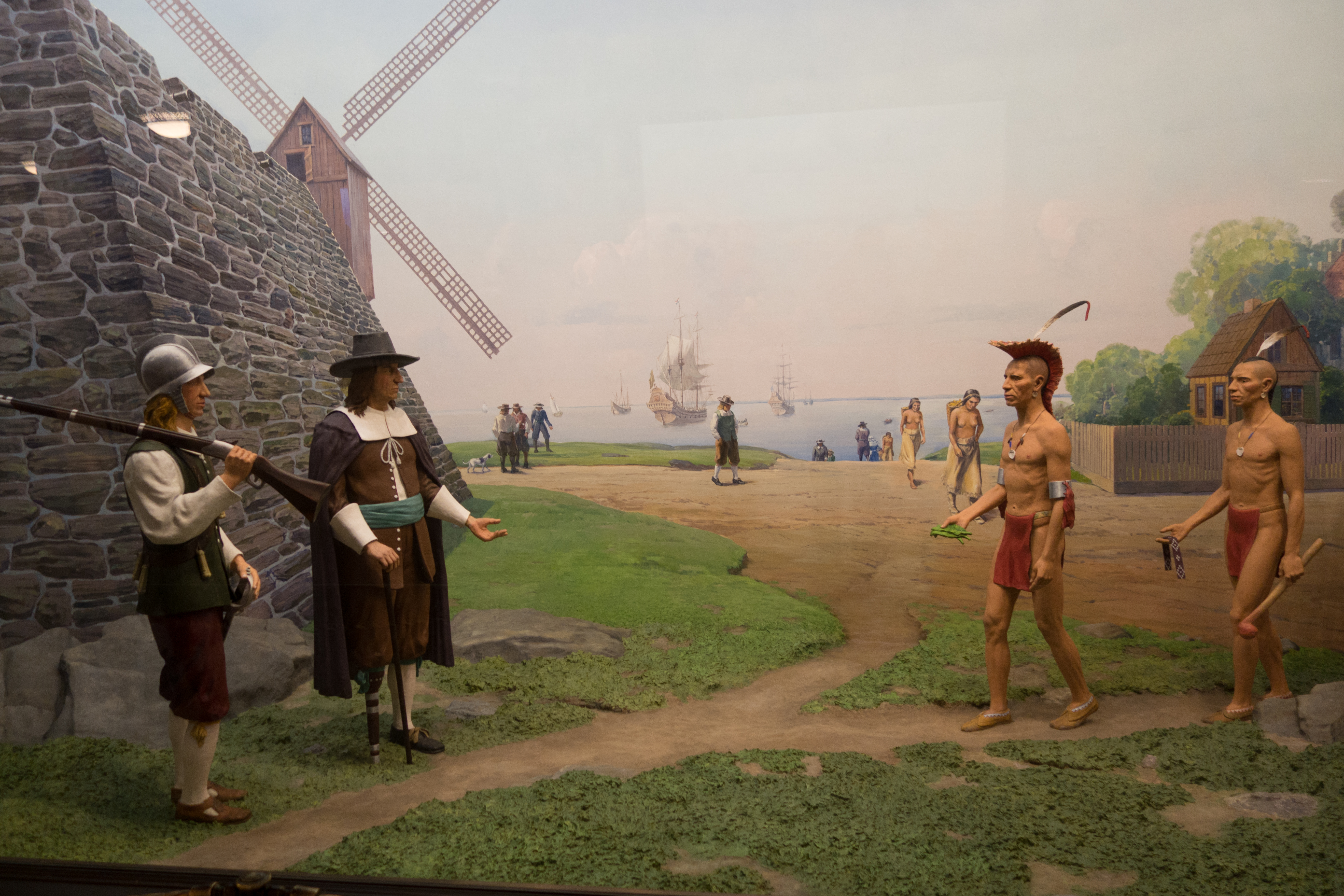 American Museum of Natural History, New York City, 2015